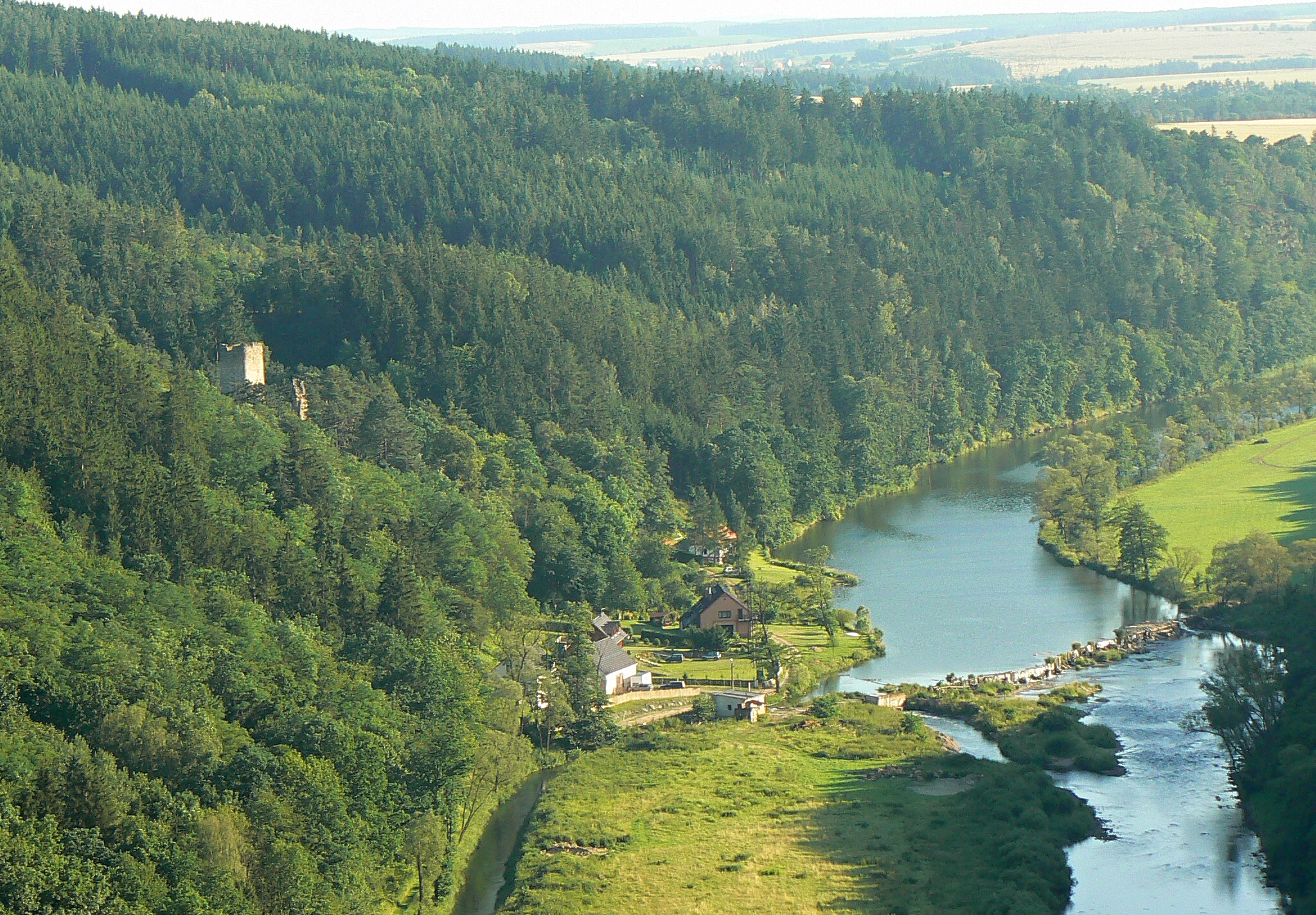 River Berounka near Liblín and ruins of the Libštejn Castle, in nature park Horní Berounka. Rokycany District in Czech Republic